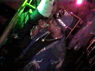 Silkski performing at Club Vallare in El Paso.